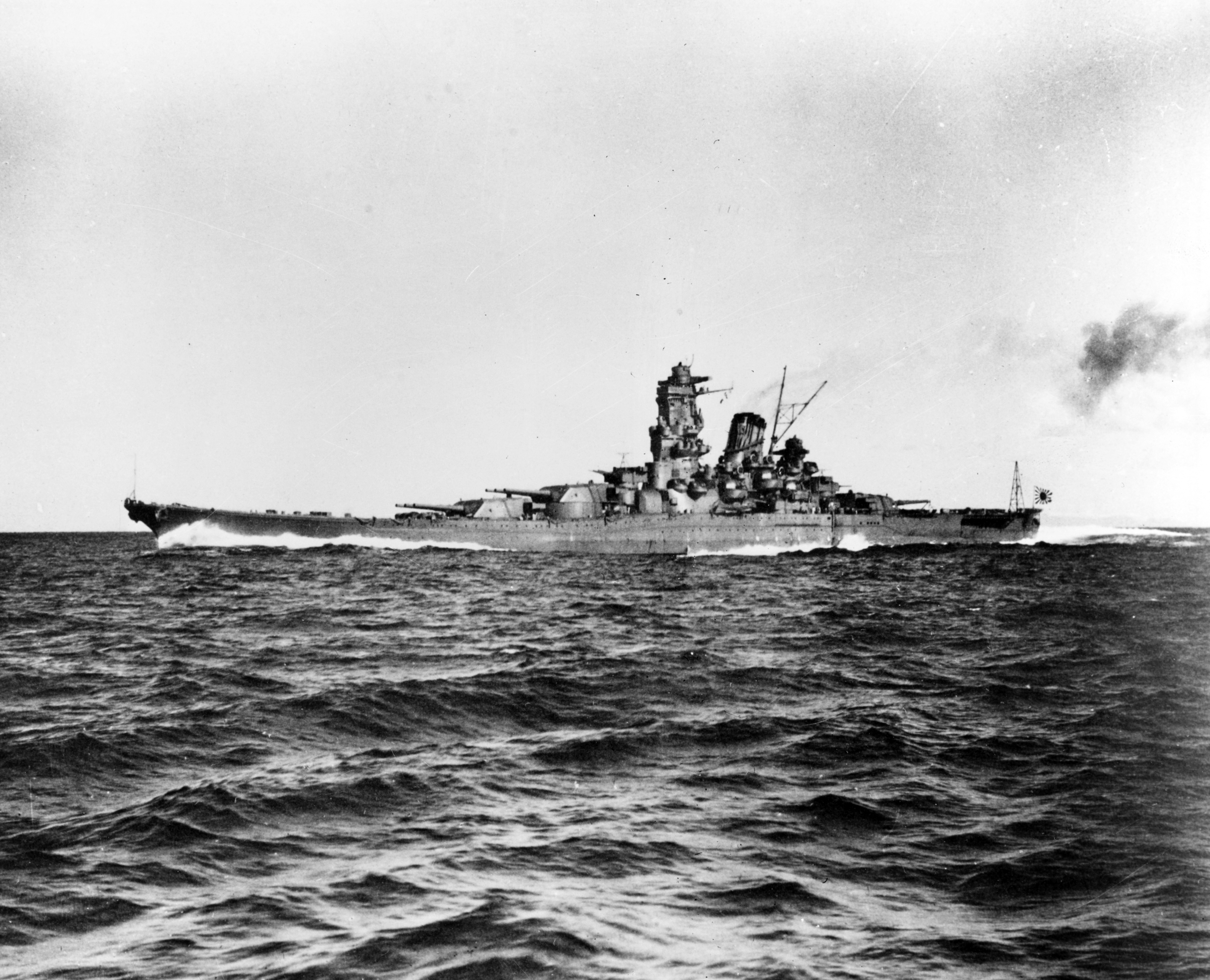 The Japanese battleship Yamato running full-power trials in Sukumo Bay, 30 October 1941.